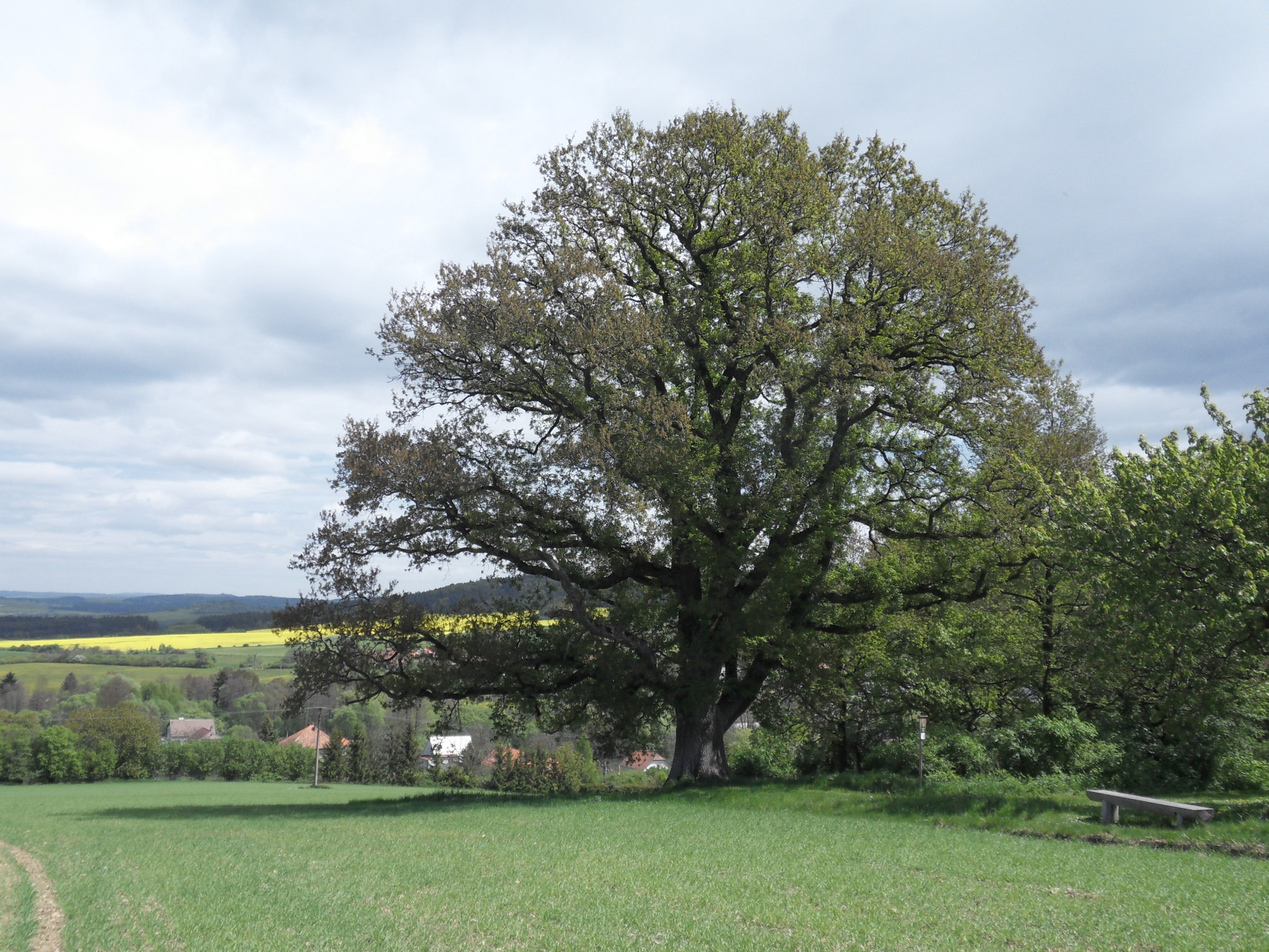 Sessile Oak by Chocenice, view from West